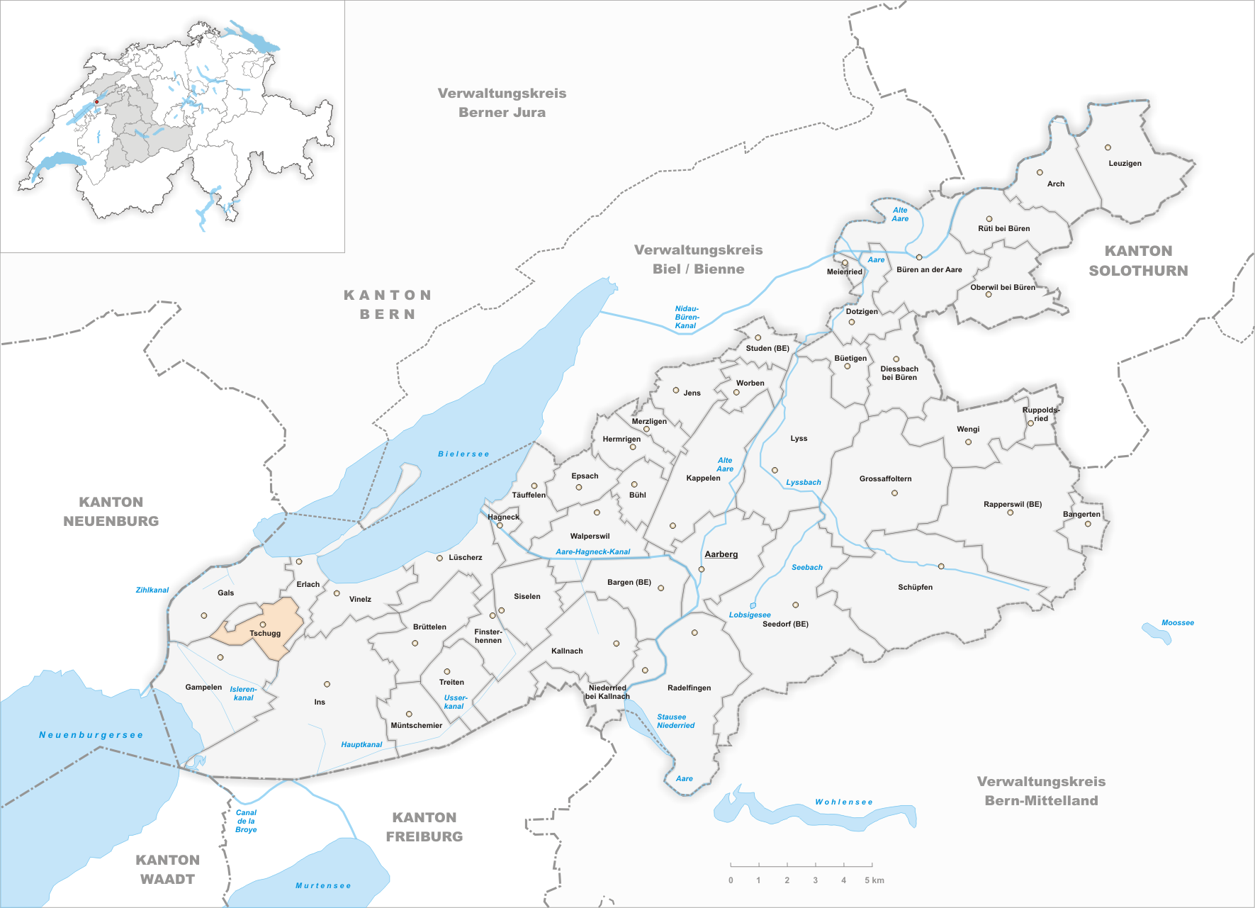 Municipality Tschugg